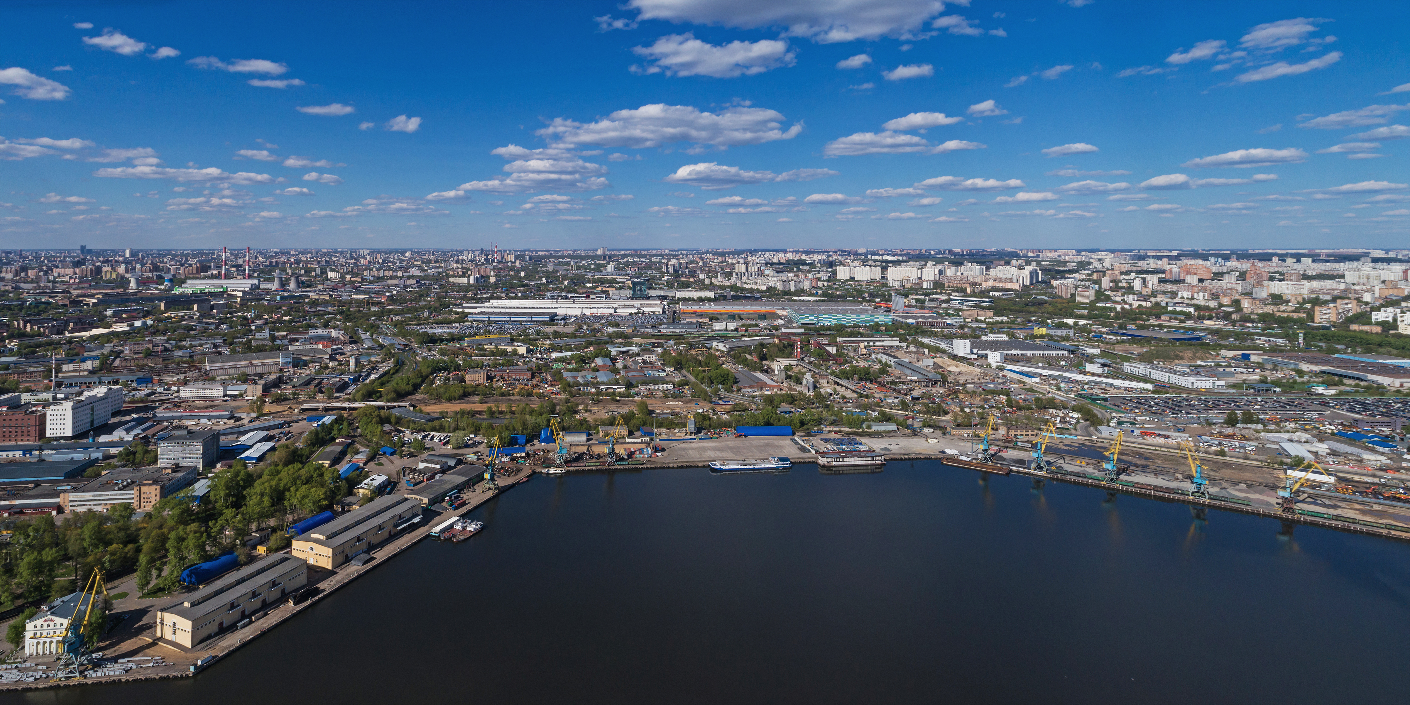 Aerial view of South river port in Moscow (Russia).